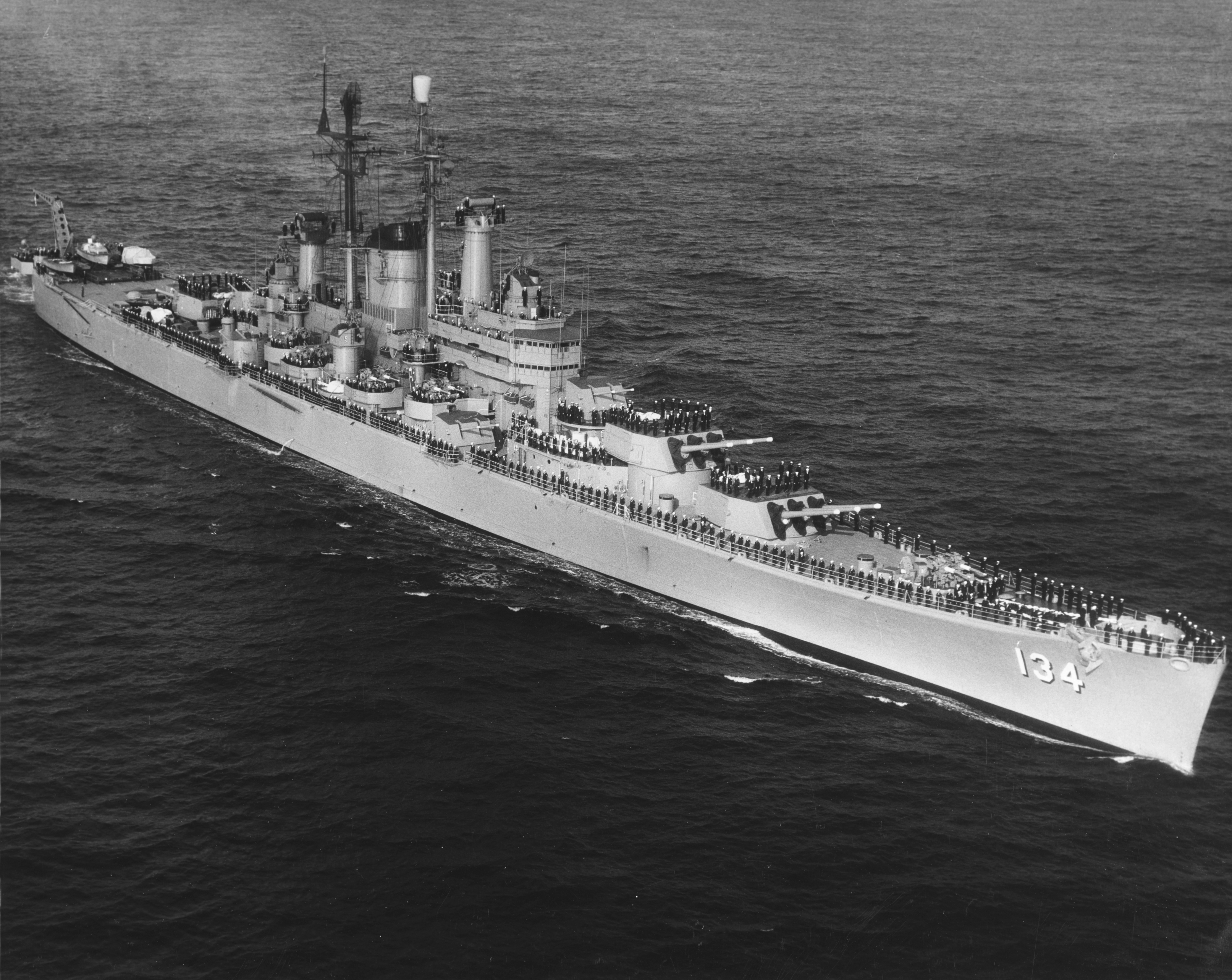 The crew of the U.S. Navy heavy cruiser USS Des Moines (CA-134) practicing manning the rail in advance of President Dwight D. Eisenhower's visit to the ship, 15 December 1959. Des Moines was Sixth Fleet flagship at the time.